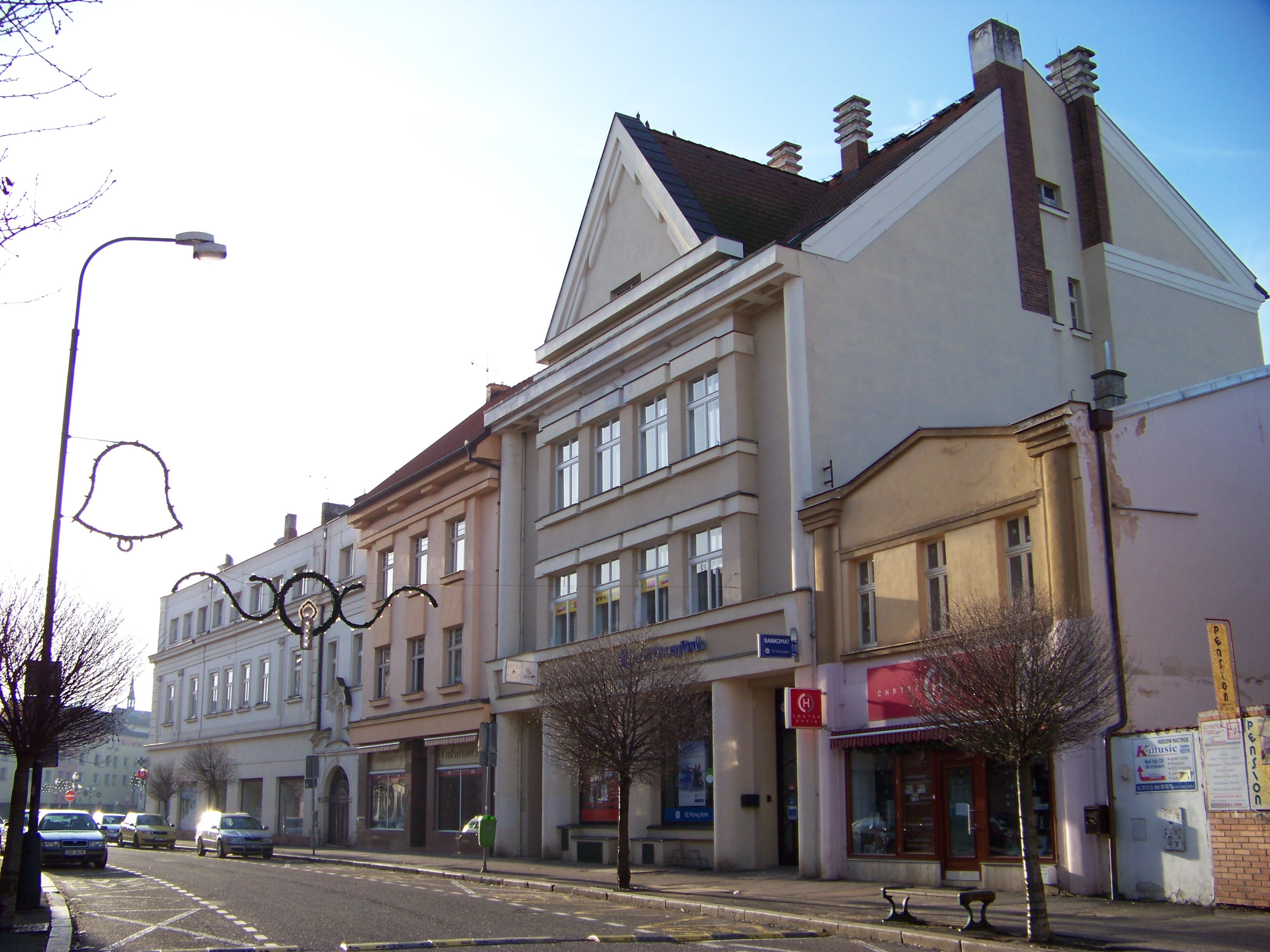 Nymburk, Nymburk District, Central Bohemian Region, the Czech Republic. Palackého třída 223/5 (GE Money Bank), 125/3, 126/1. - OpenStreetMap(Info)